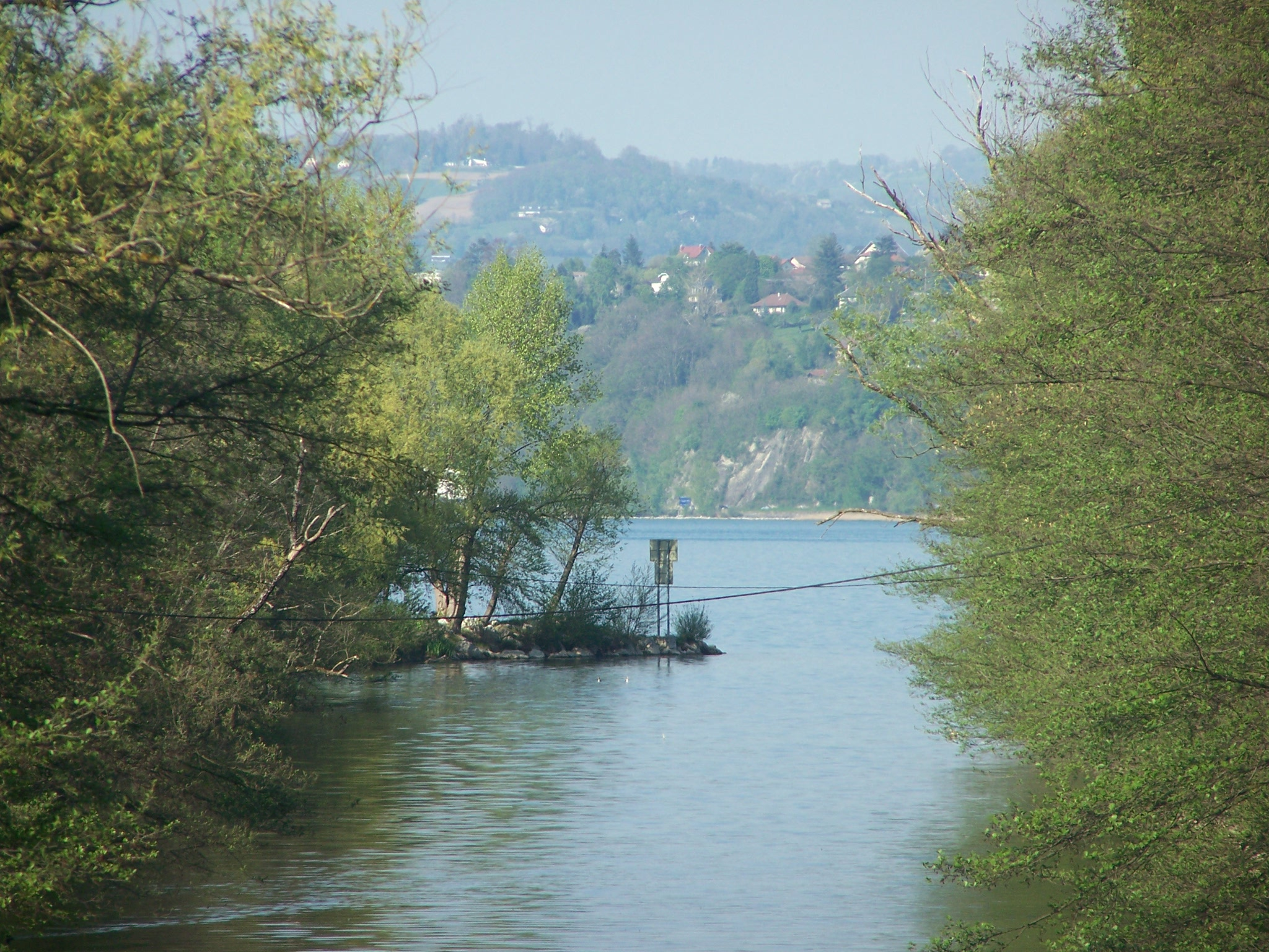 Mouth of the river Leysse in the Lake of Bourget, in Savoie, France.